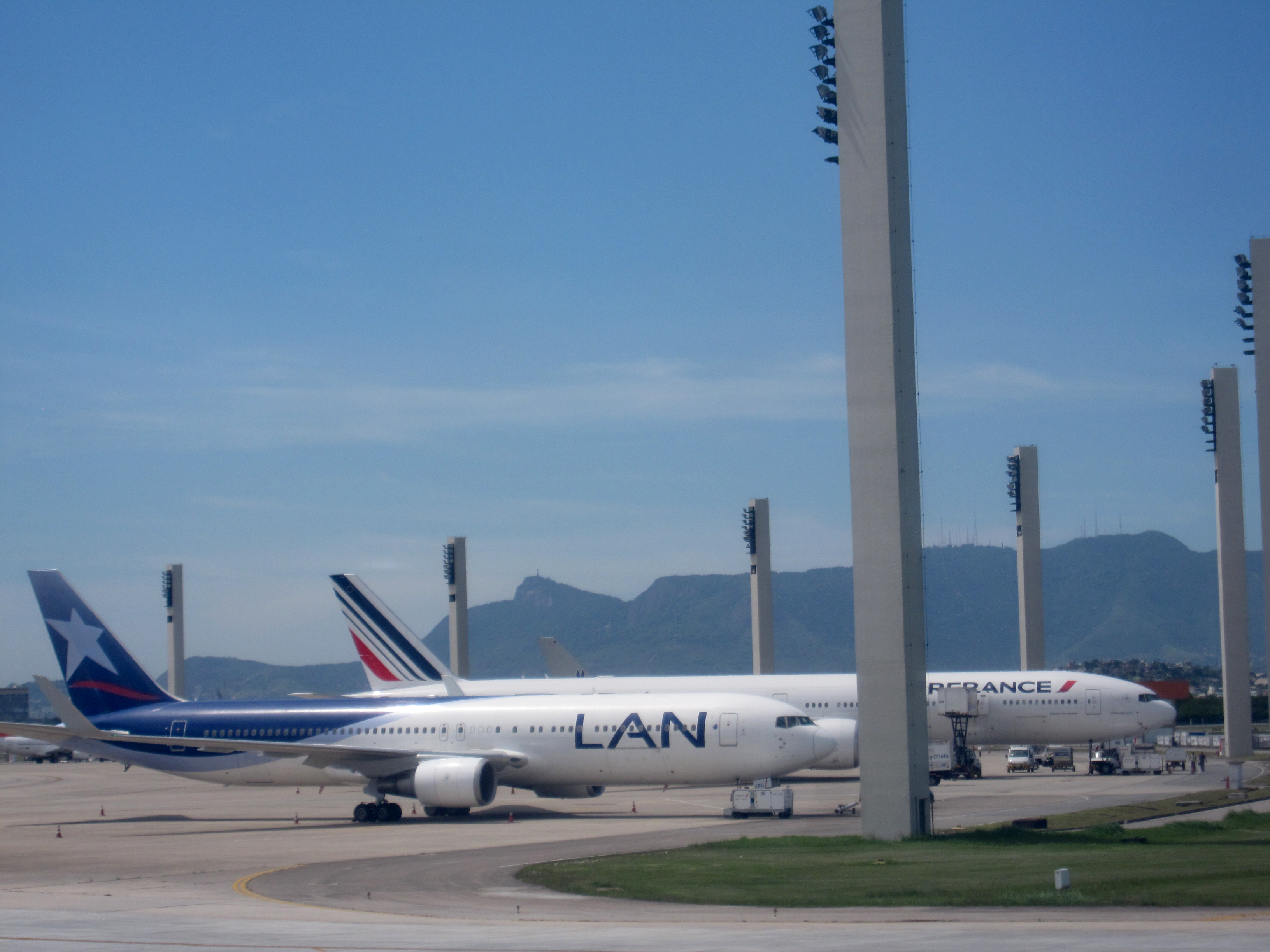 LAN Airlines + Air France at Rio de Janeiro-Galeão International Airport on December 2011.